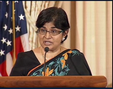 Mar. 11, 2009: Secretary of State Hillary Rodham Clinton hosted the 3rd annual International Women of Courage Awards ceremony with guest speaker First Lady Michelle Obama in the Ben Franklin Room at the State Department.